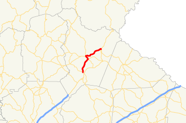 Map of Georgia State Route 385